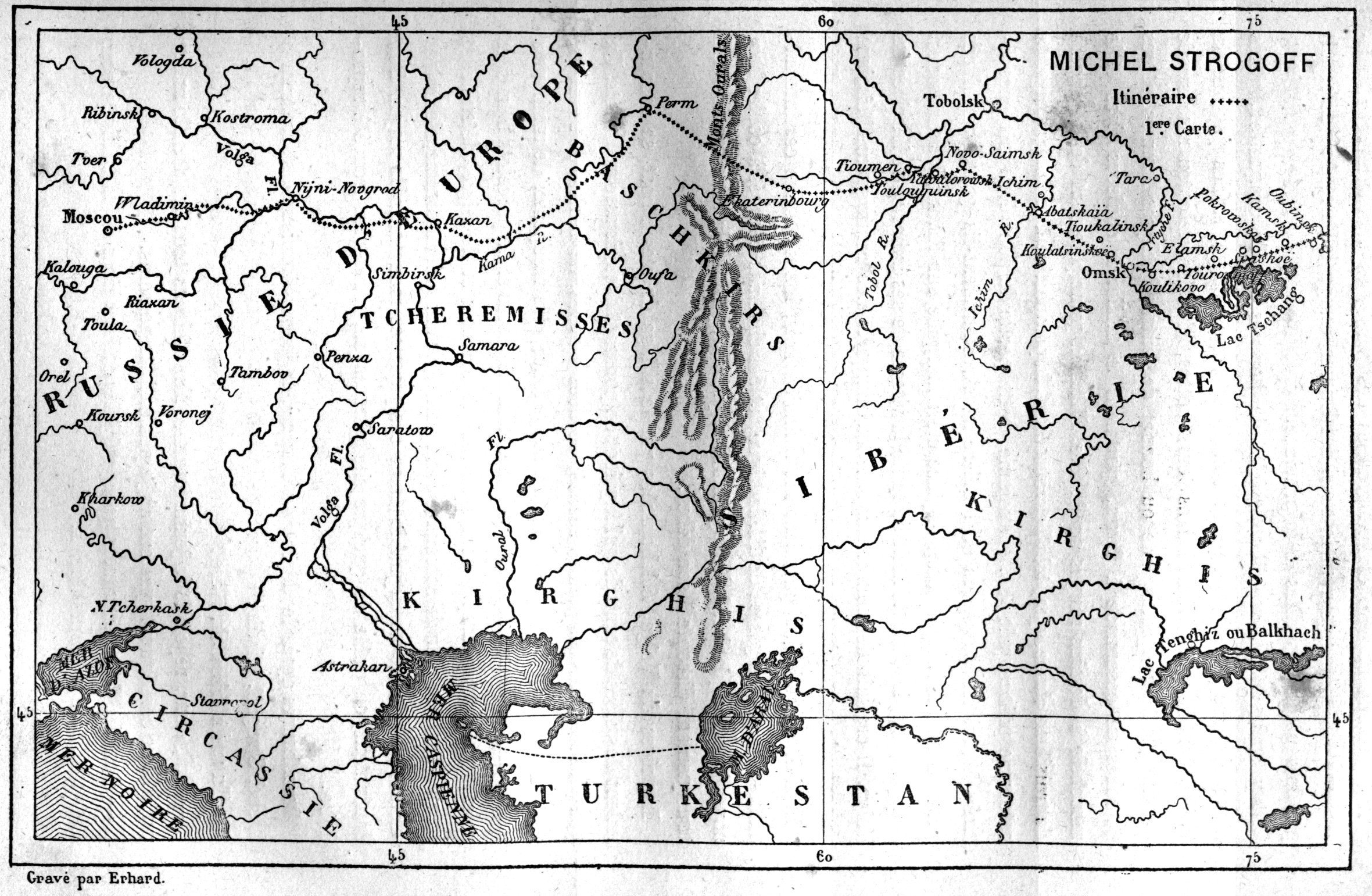 An illustration from the novel "Michael Strogoff: The Courier of the Czar" by Jules Verne drawn by Jules Férat.